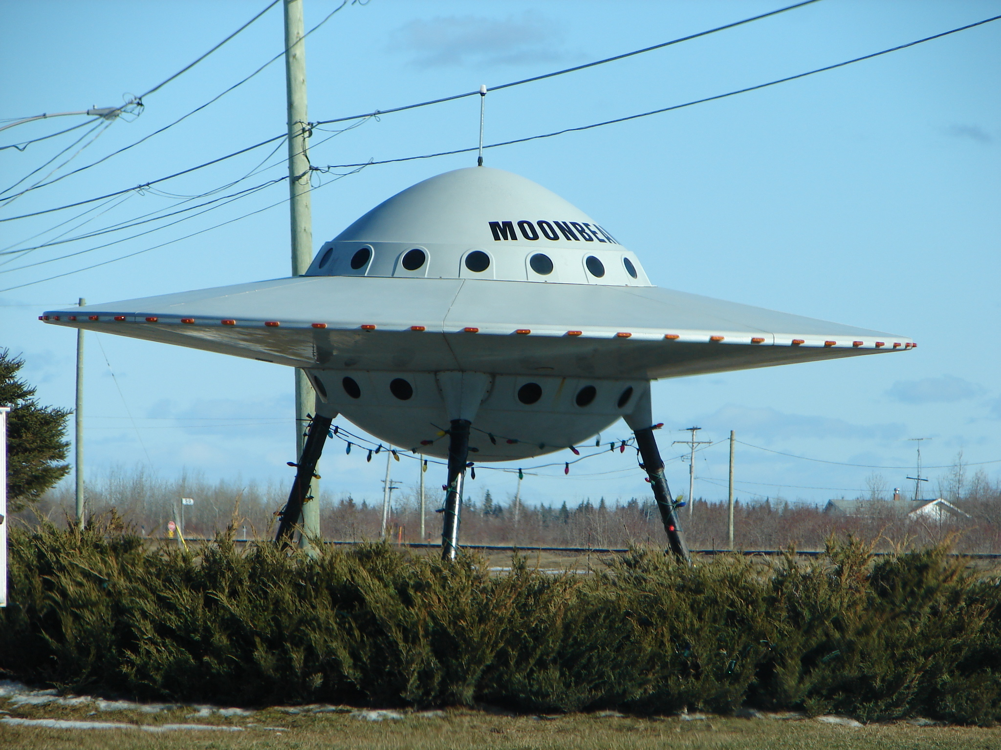 Novelty UFO in Moonbeam, Ontario, Canada